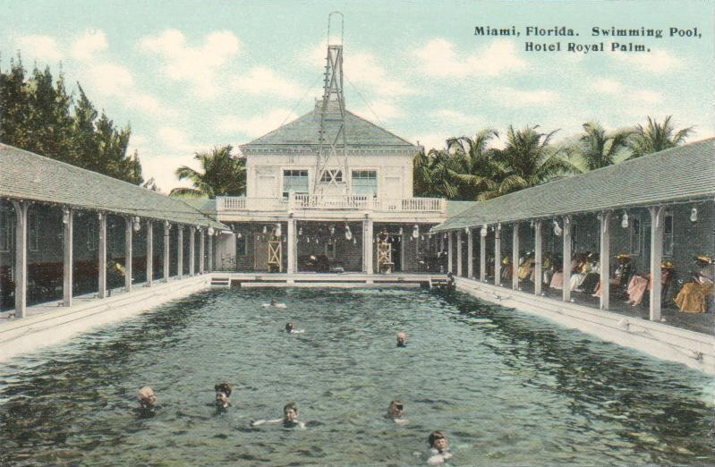 Swimming pool at the Royal Palm Hotel, Miami, Florida